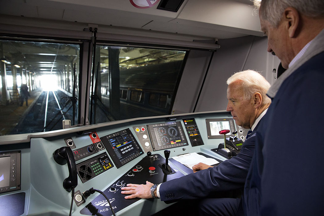 Vice President Joe Biden sits at the controls of one of Amtrak's new "Cities Sprinter" electric locomotives at the 30th Street Station in Philadelphia, Pennsylvania